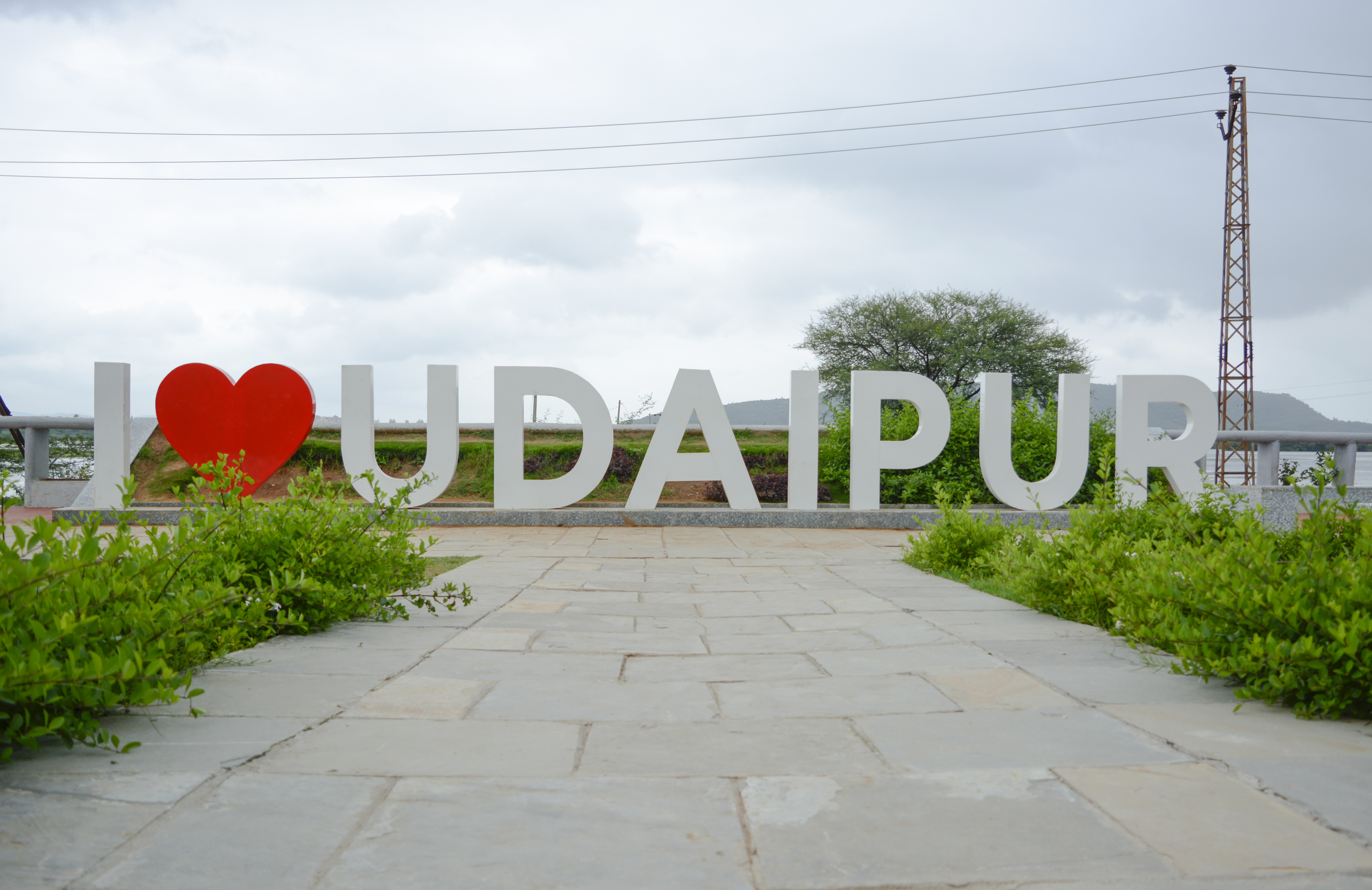 A Picture Showing human sized alphabets I Love Udaipur Structure !